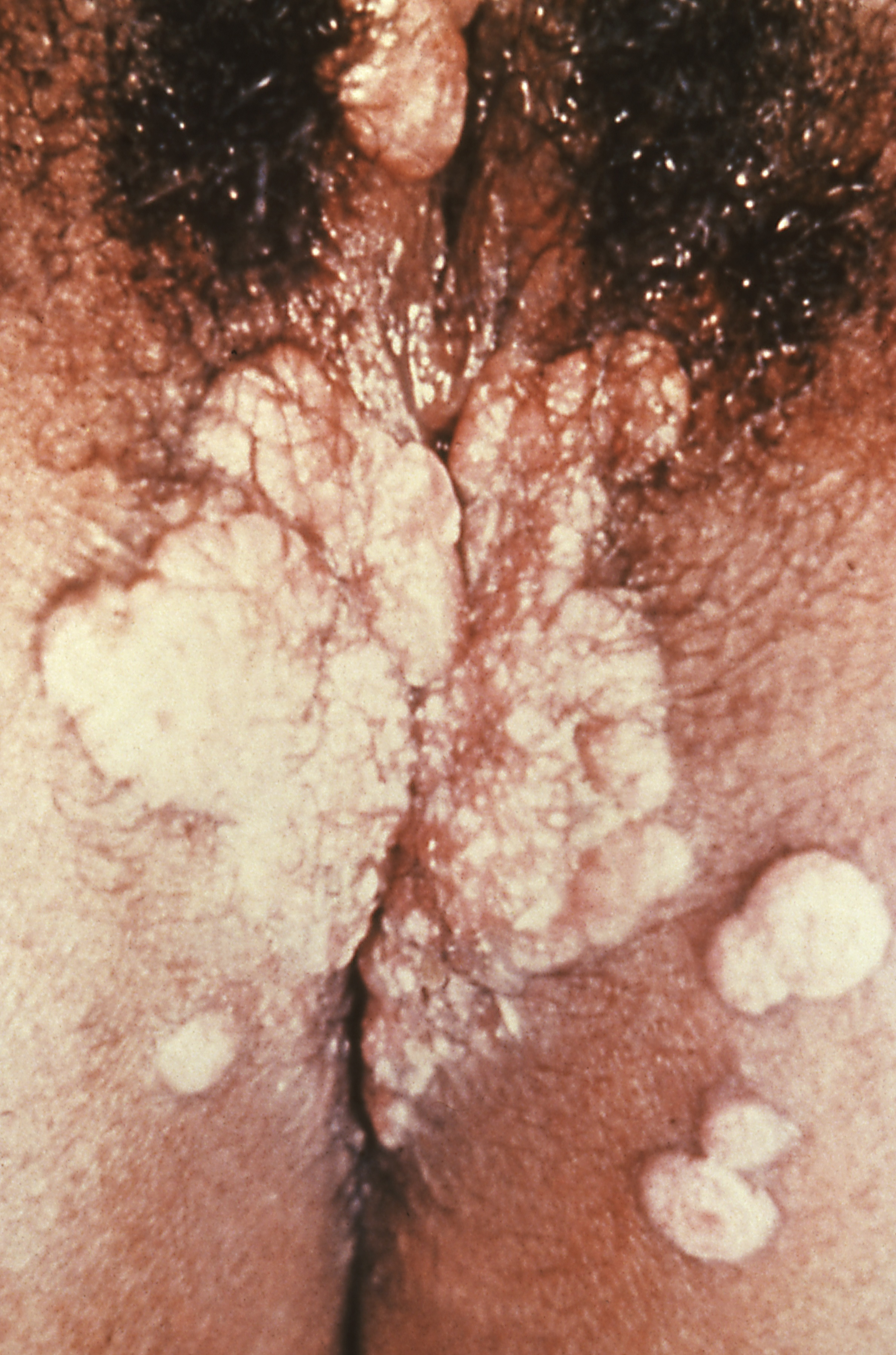 This patient presented with a case of secondary syphilis manifested as perinal wart-like growths. This patient with secondary syphilis manifested perineal condylomata lata lesions, which presented as gray, raised papules that sometimes appear on the vulva or near the anus, or in any other warm intertriginous region.